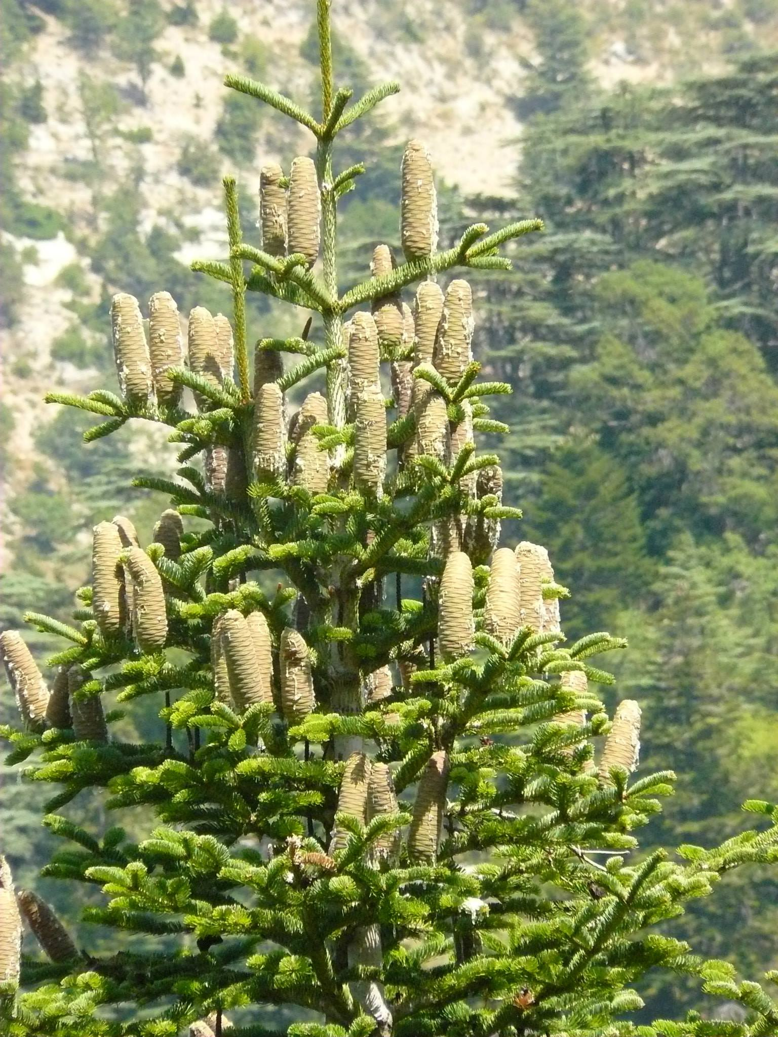 Abies cilicica (Cilician Fir) in the Horsh Ehden Nature Reserve, Lebanon.